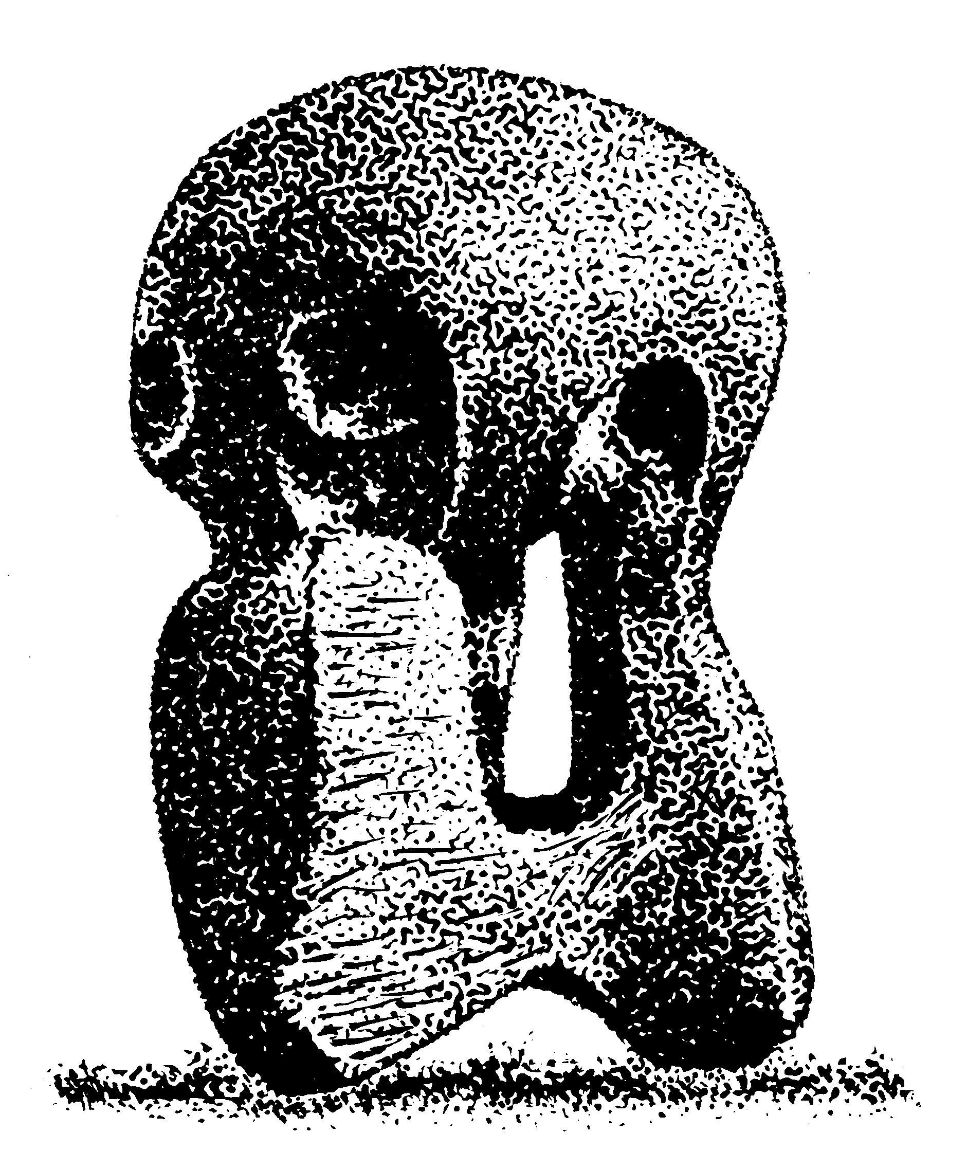 Line art drawing of abstract art